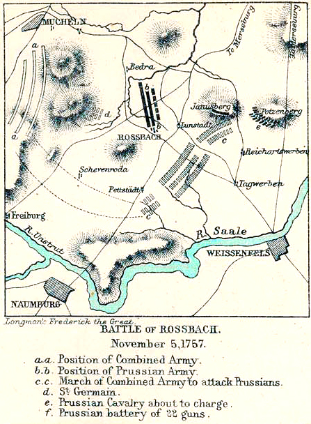 Map showing the wide angle of maneuvers at the Battle of Rossbach